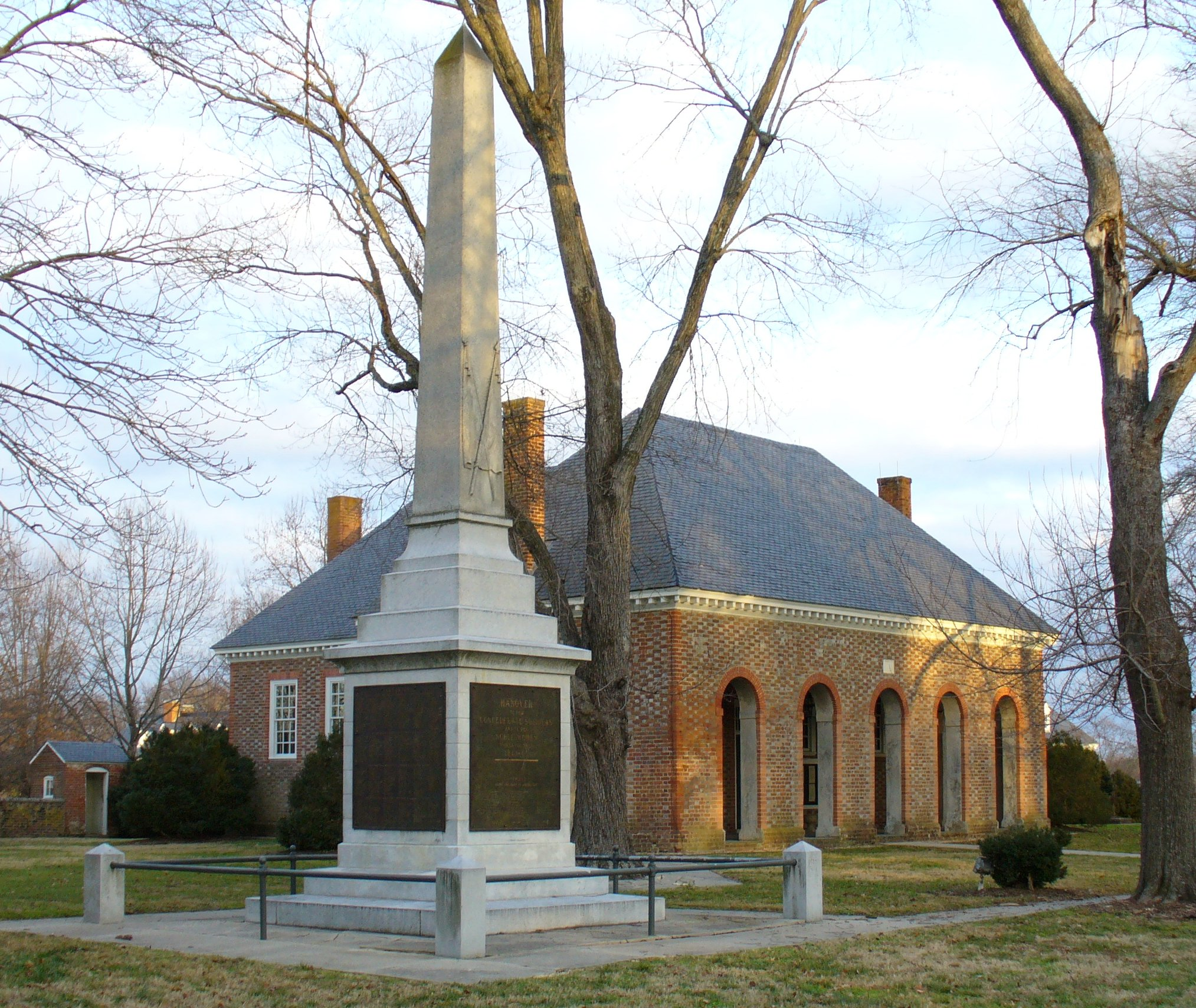 Historic Hanover County Courthouse in Hanover, Virginia along with the county Civil War memorial.